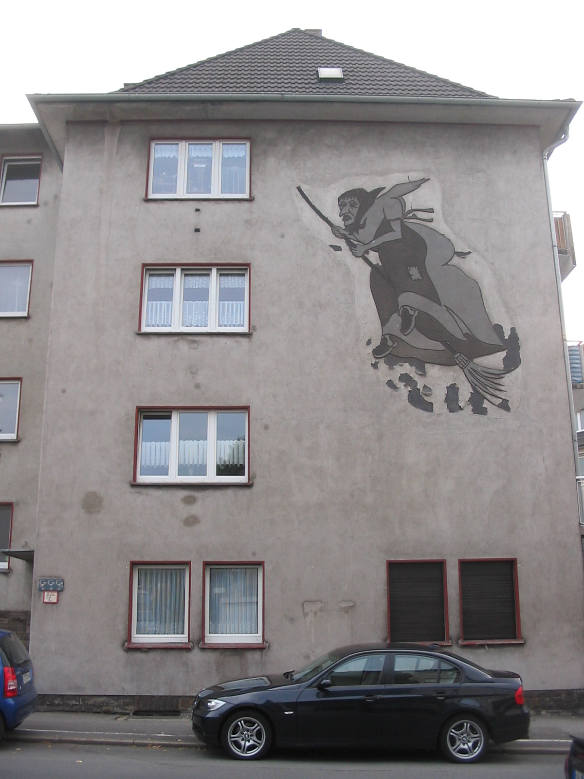 house Südstraße 3 in Witten, mural of a witch across from Bottermannstraße